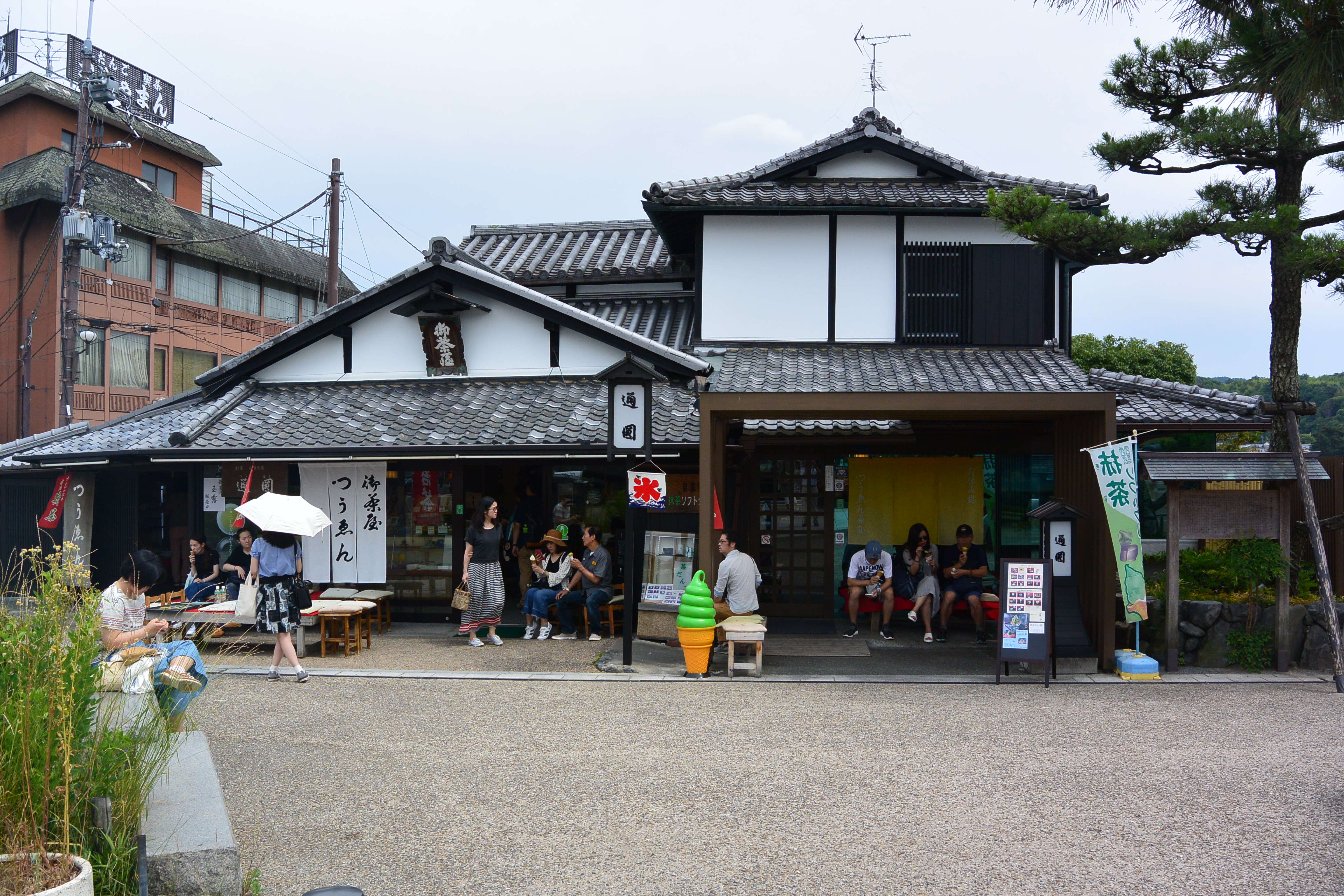 Tsuen, famous old tea shop at Uji, Kyoto, built in 1672